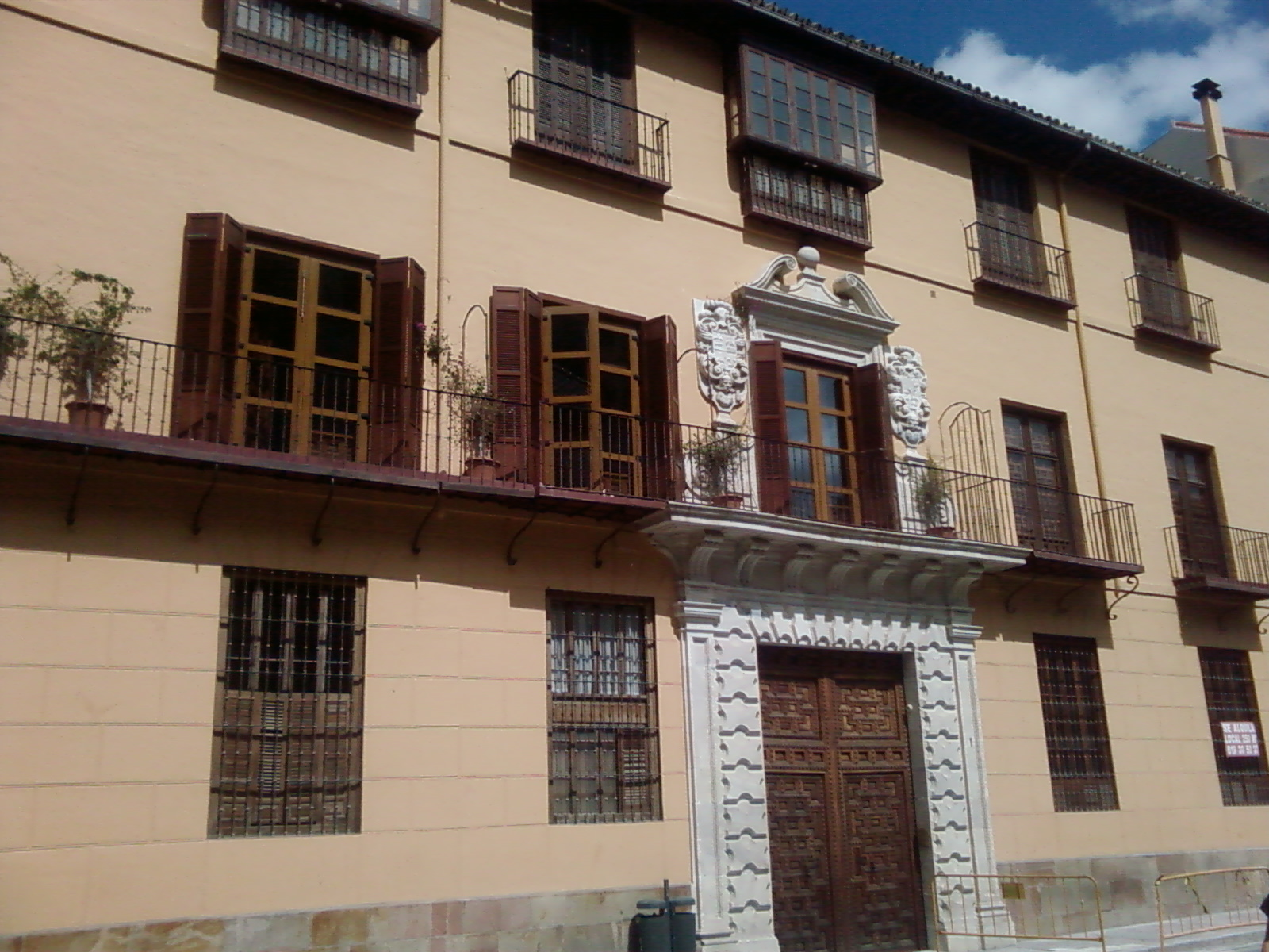 Zea-Salvatierra's Palace, Malaga, Spain